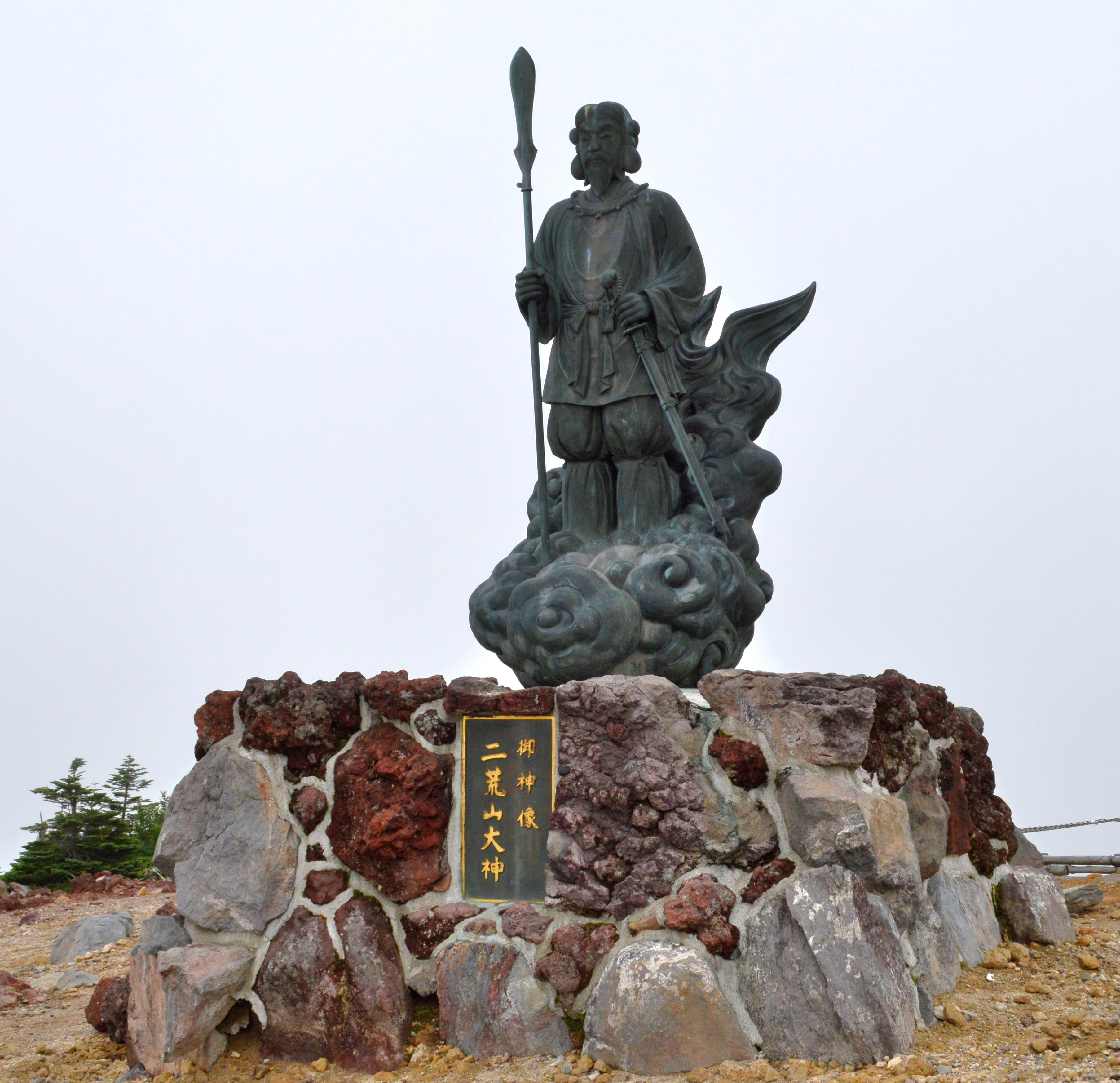 Japan: statue of Futarasan Ōmikami on the mount Nantai top (Nikkō city, Tochigi prefecture).